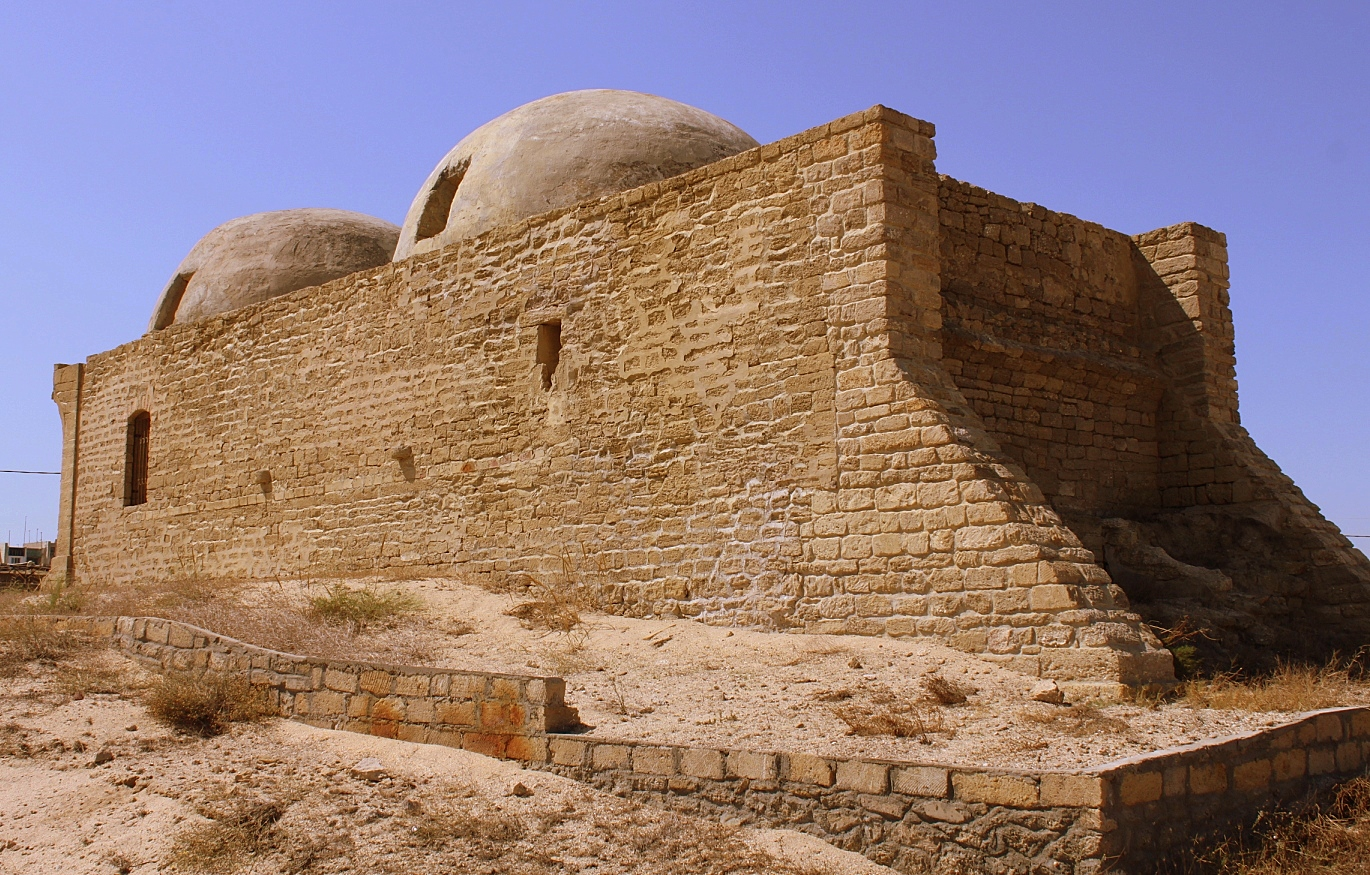 Oirshagi Azerbaijan.